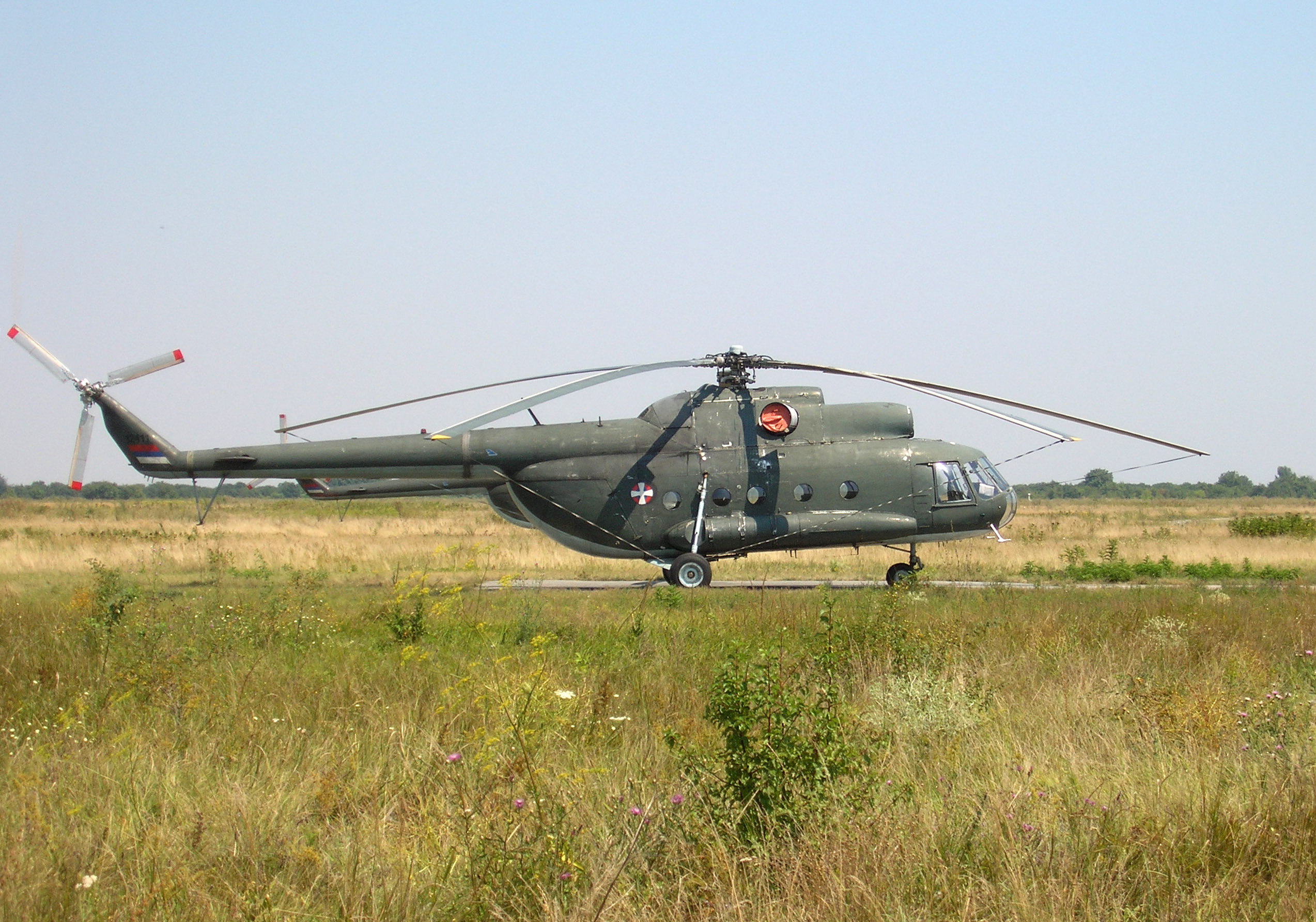 Mil Mi-8T helicopter No.12411 of 138. Mixed-Transport-Aviation Squadron, 204th Air Base of Serbian Air Force, at Batajnica airbase during the Saint Elijah, the Aviation Day in Serbia.